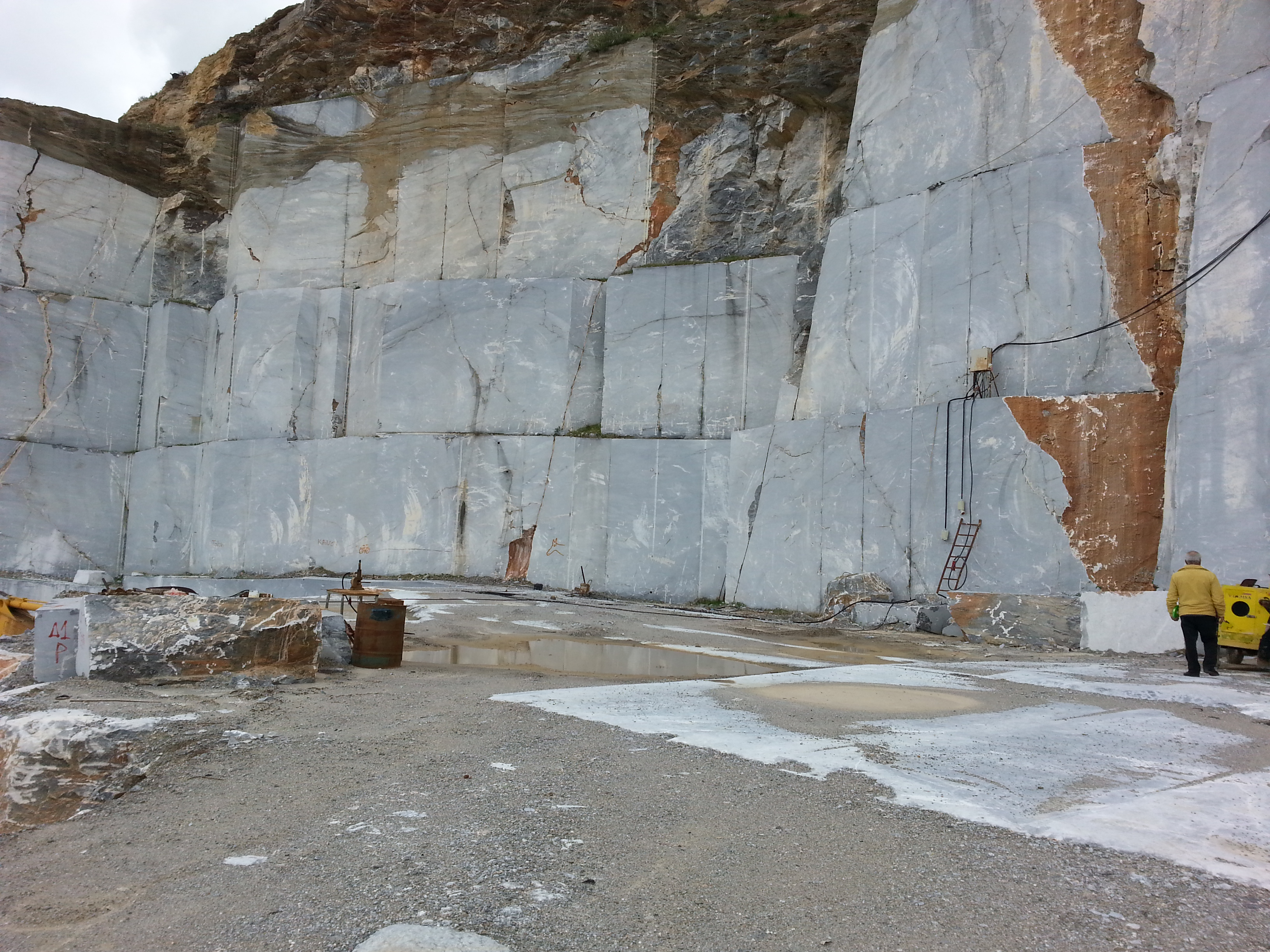 Marble quarry in evia Greece, Daskalaki marbles